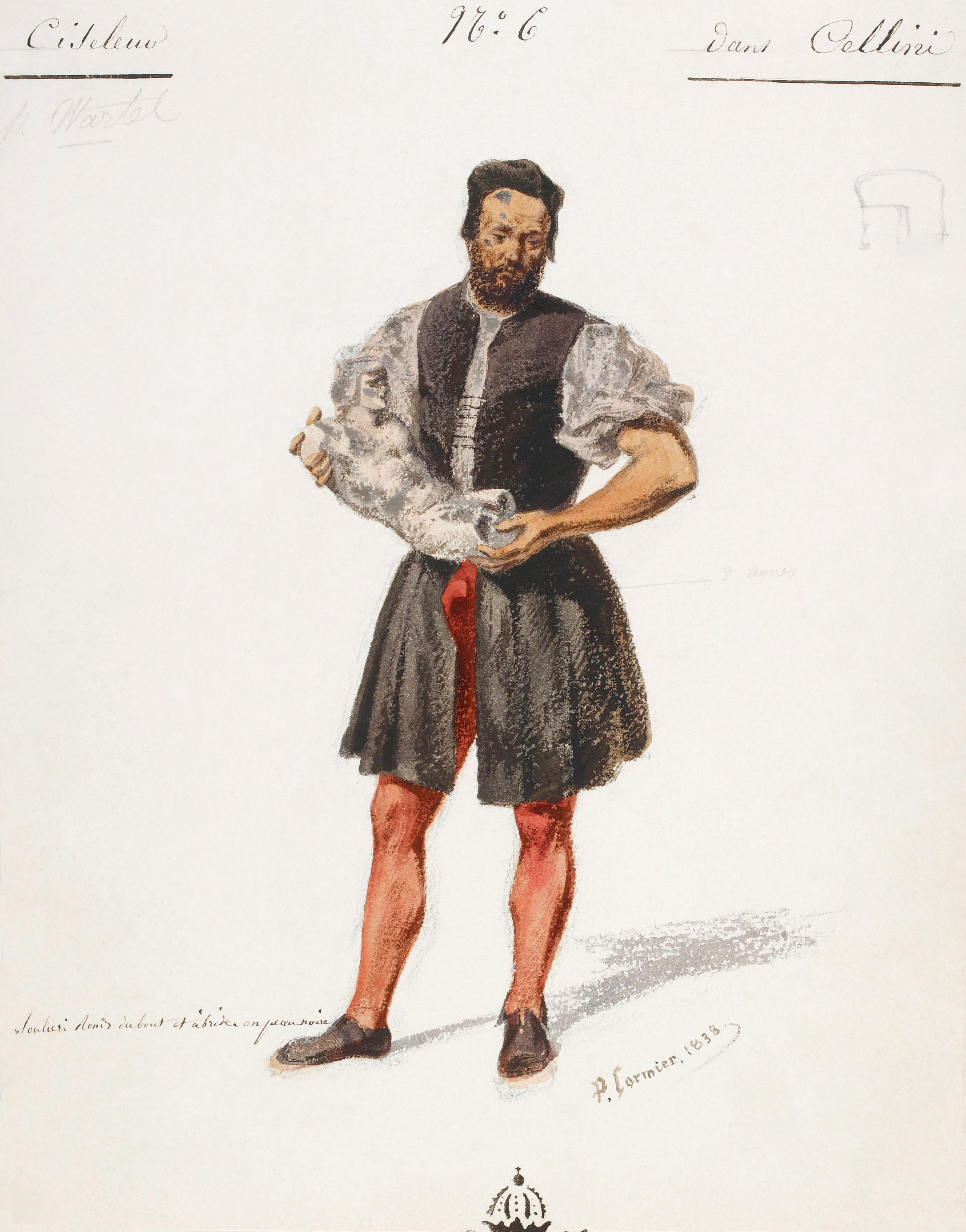 François Wartel as Francesco from a set of costume design drawings by Paul Lormier for the original production of Hector Berlioz's Benvenuto Cellini